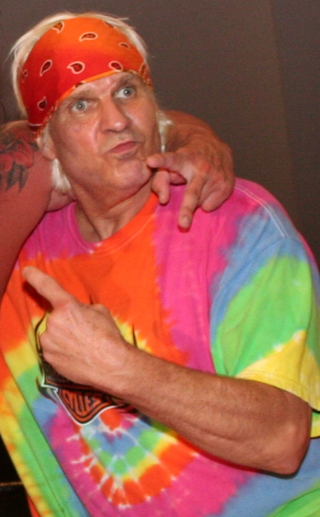 Professional wrestler Tommy Rich in August 2013.